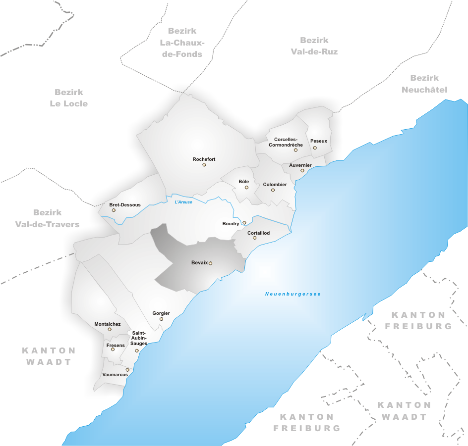 Municipality Bevaix